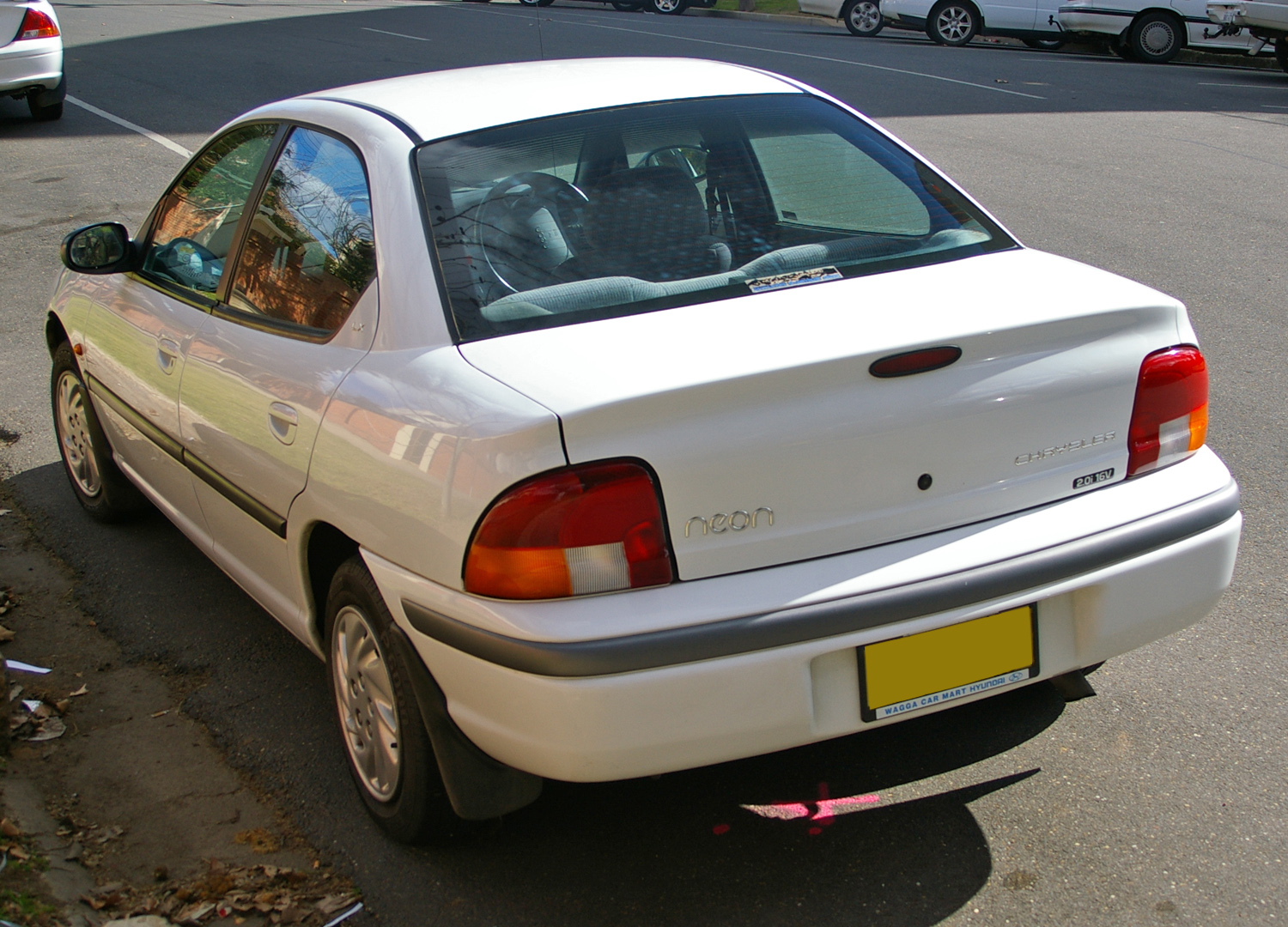 1996–1999 Chrysler Neon LX sedan, photographed in New South Wales, Australia.